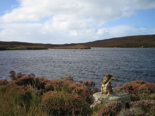 Loch Ba Una